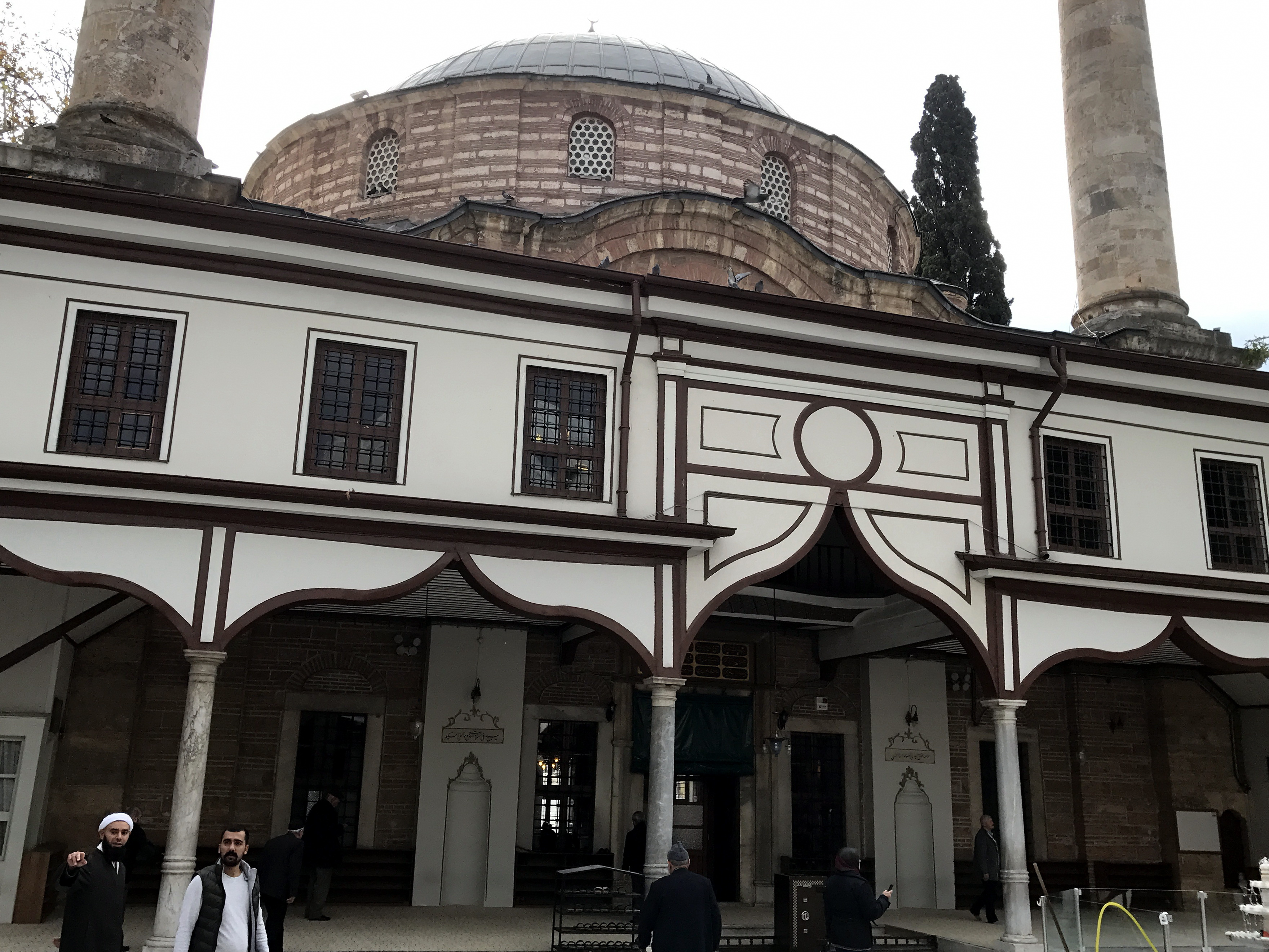 Emir Sultan Mosque in Bursa, Turkey.